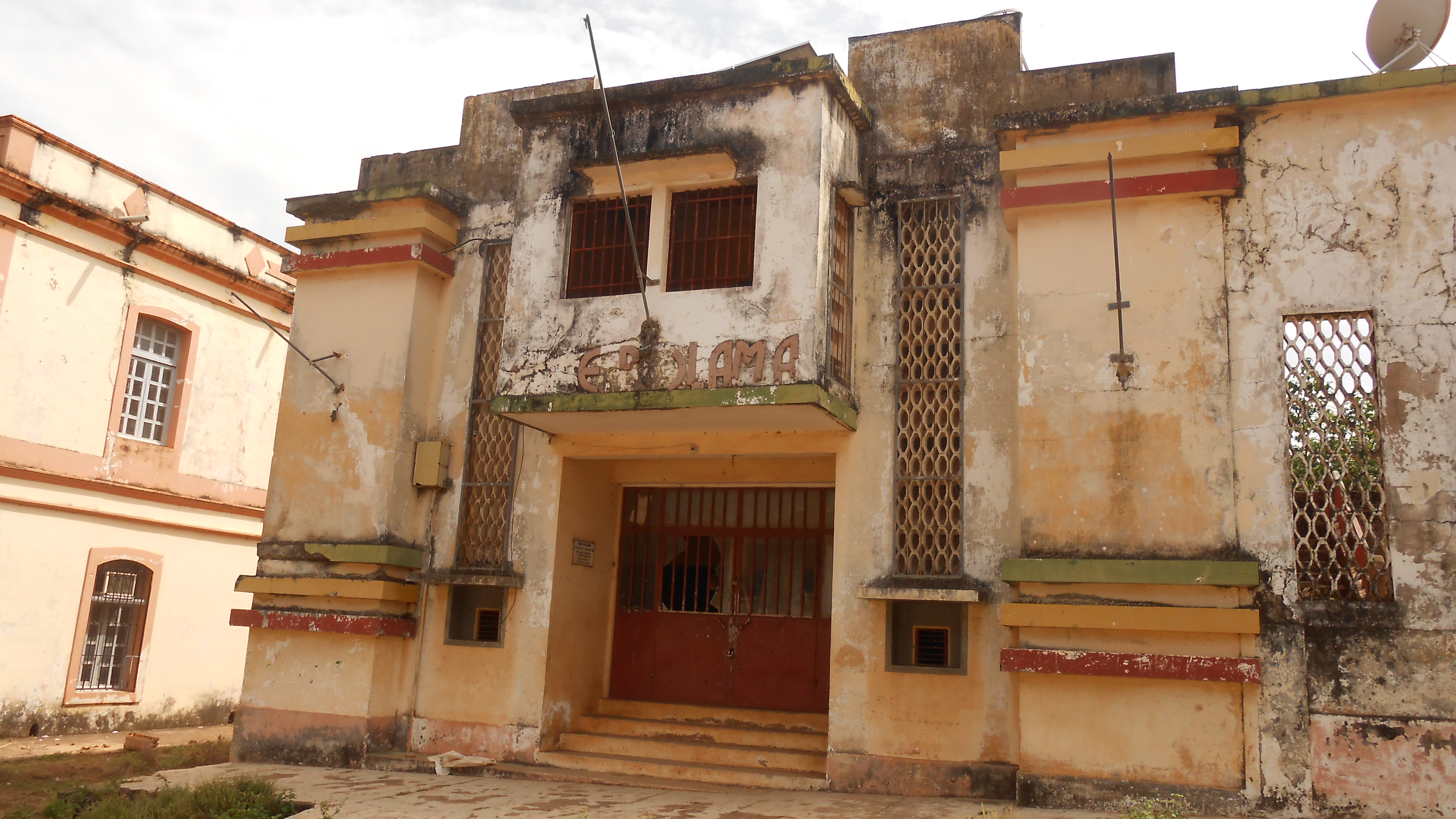 Rehearsal time for local musicians and dancers in the old cinema of Bolama.